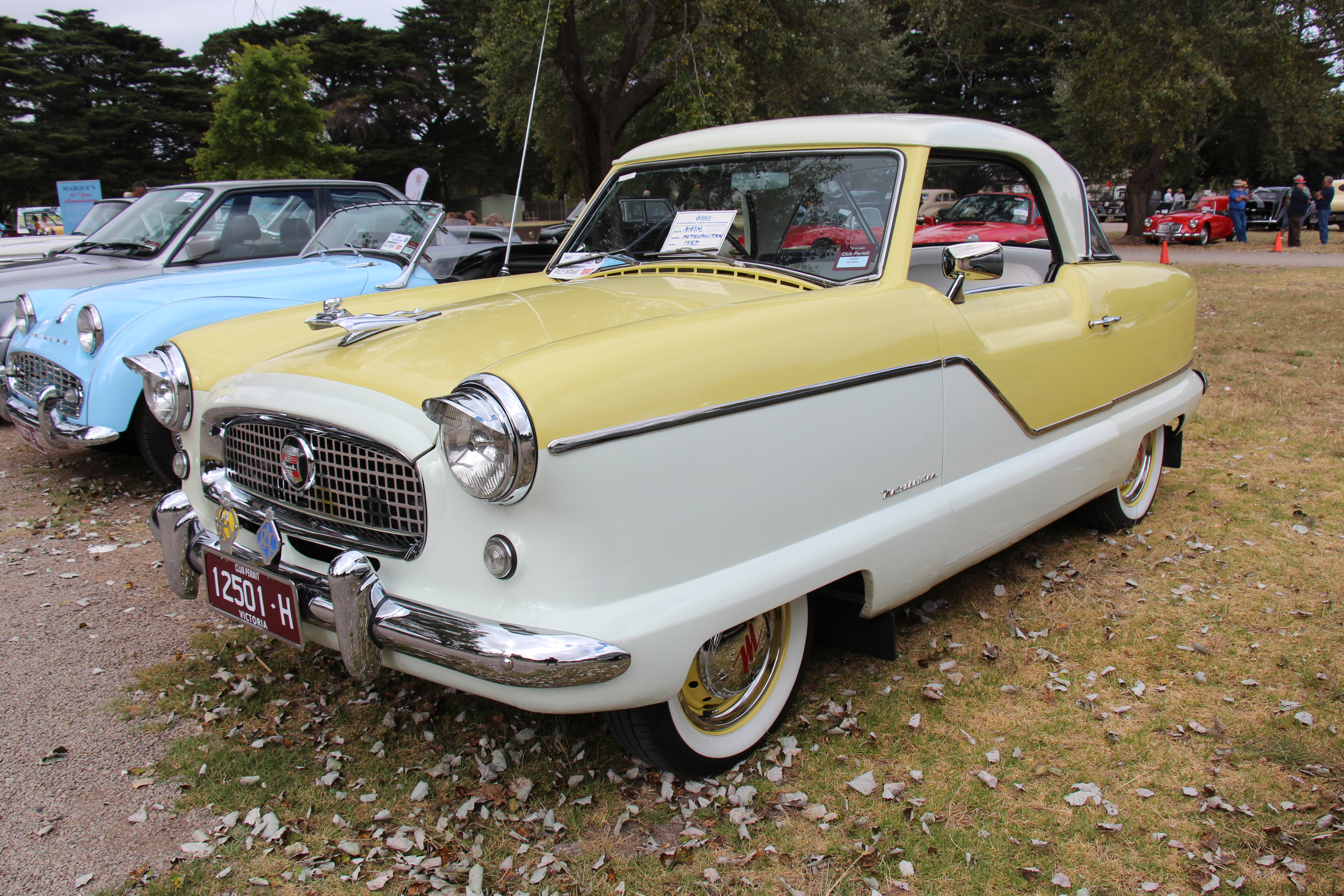 The Metropolitan was designed and sold in the US, but built in the UK, from 1953-62, using Austin engines. They were available in 2 door Hardtop or Convertible. The 1st was the 1953 S1 with the 1200cc Austin A40 Devon engine. the 2nd, the 1955 S2 with the later 1200cc B series A40 Cambridge engine. The 1956 S3 got the 1500cc A50 Cambridge engine, also a new grille and the hood scoop was gone. The last model, the S4 got the 1500cc A55 Cambridge engine, and now got a deck lid, previously access was thru the rear seat.